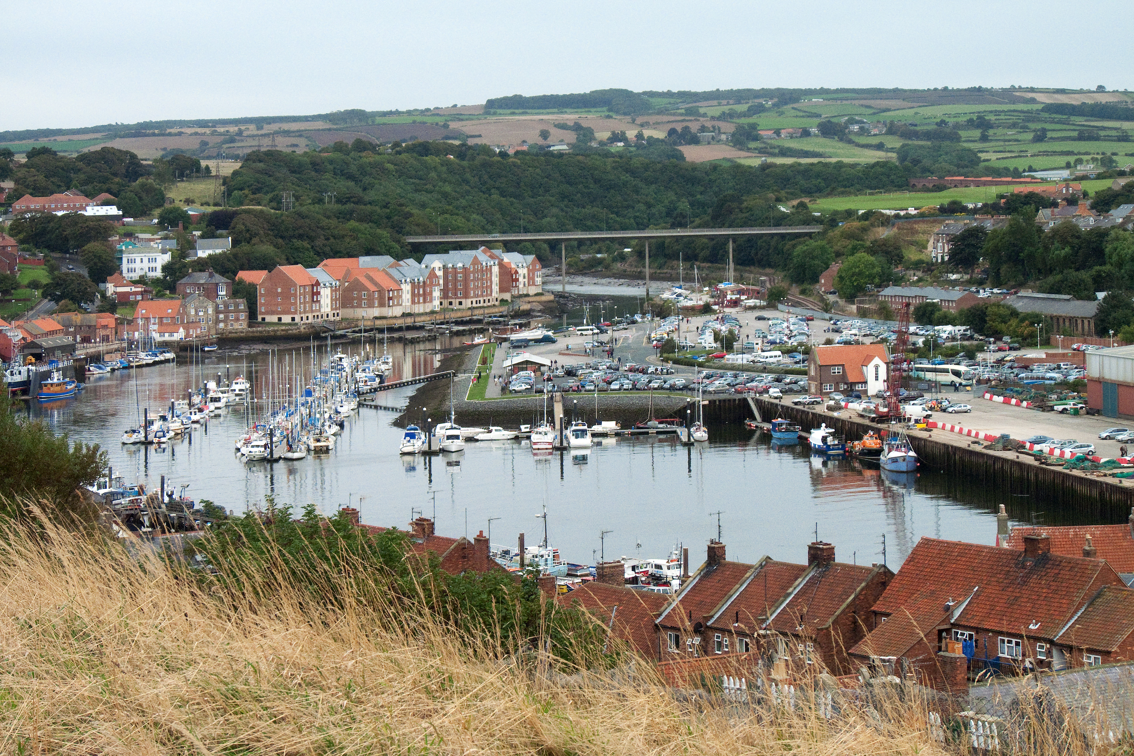 Whitby port, Yorkshire, England